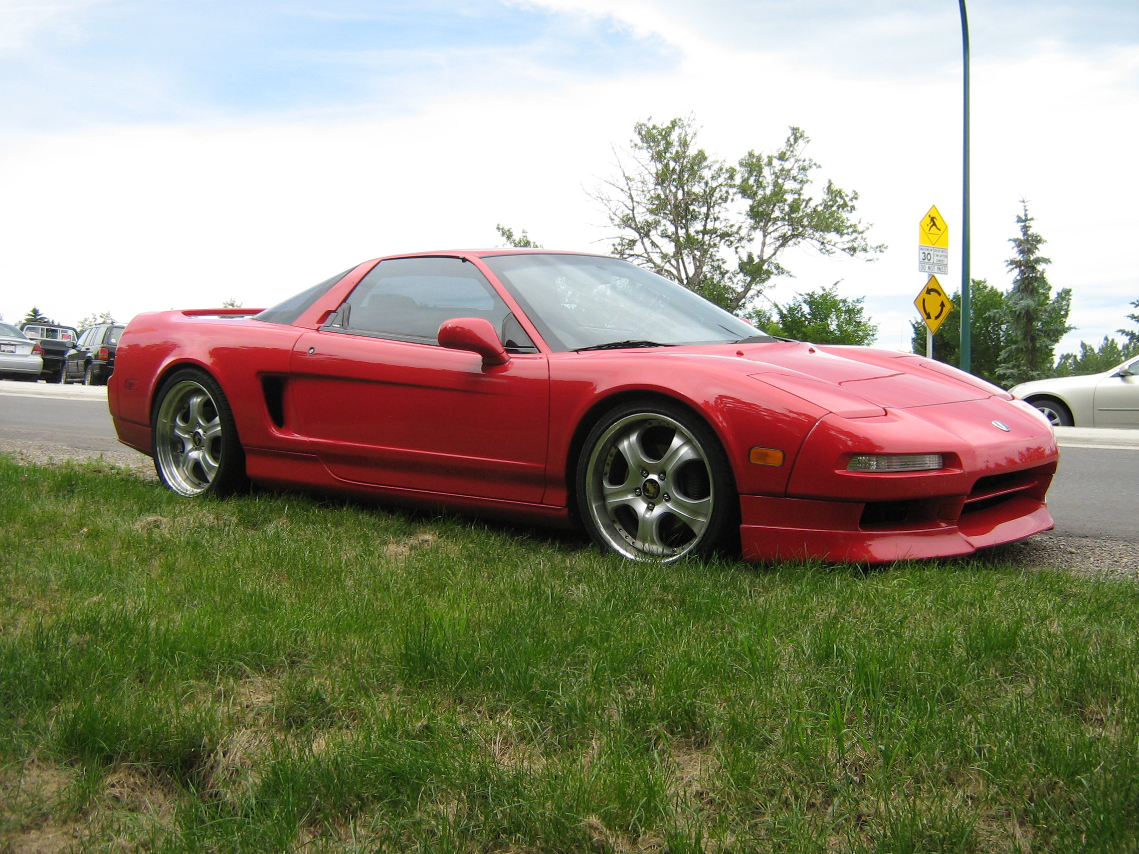 Acura NSX parked outside the European Classic Car show.